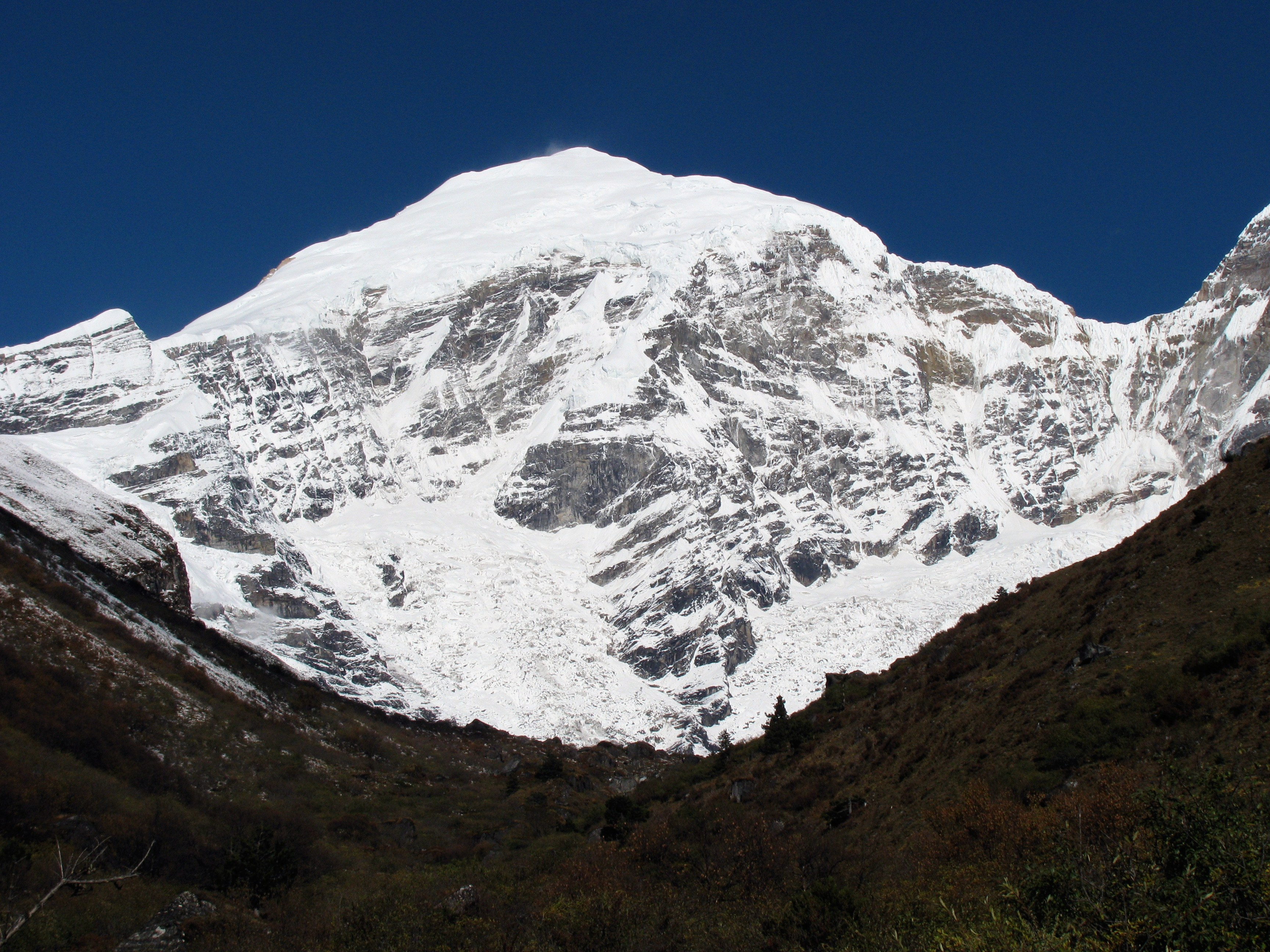 Mt. Jomolhari from Bhutan (taken from base camp at Jangothang)